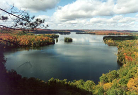 Overlook of Peninsula Lake, Muskoka, Ontario, taken October 1998 by Peter McEwen. In the foreground is Wolf Bay. Wolf Island is at center, and in the distance is a long peninsula from which the lake gets its name. Peninsula Lake, also called Penlake, is in the center of "Cottage Country" in central Ontario.